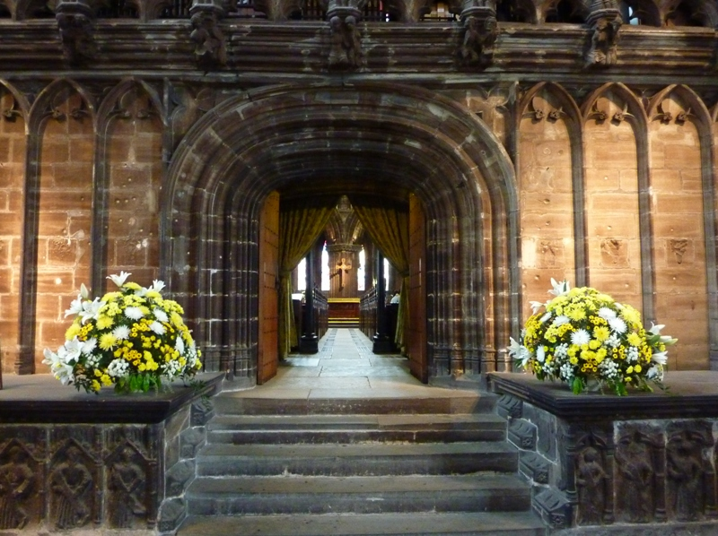 Glasgow Cathedral, Glasgow, Scotland - pulpitum